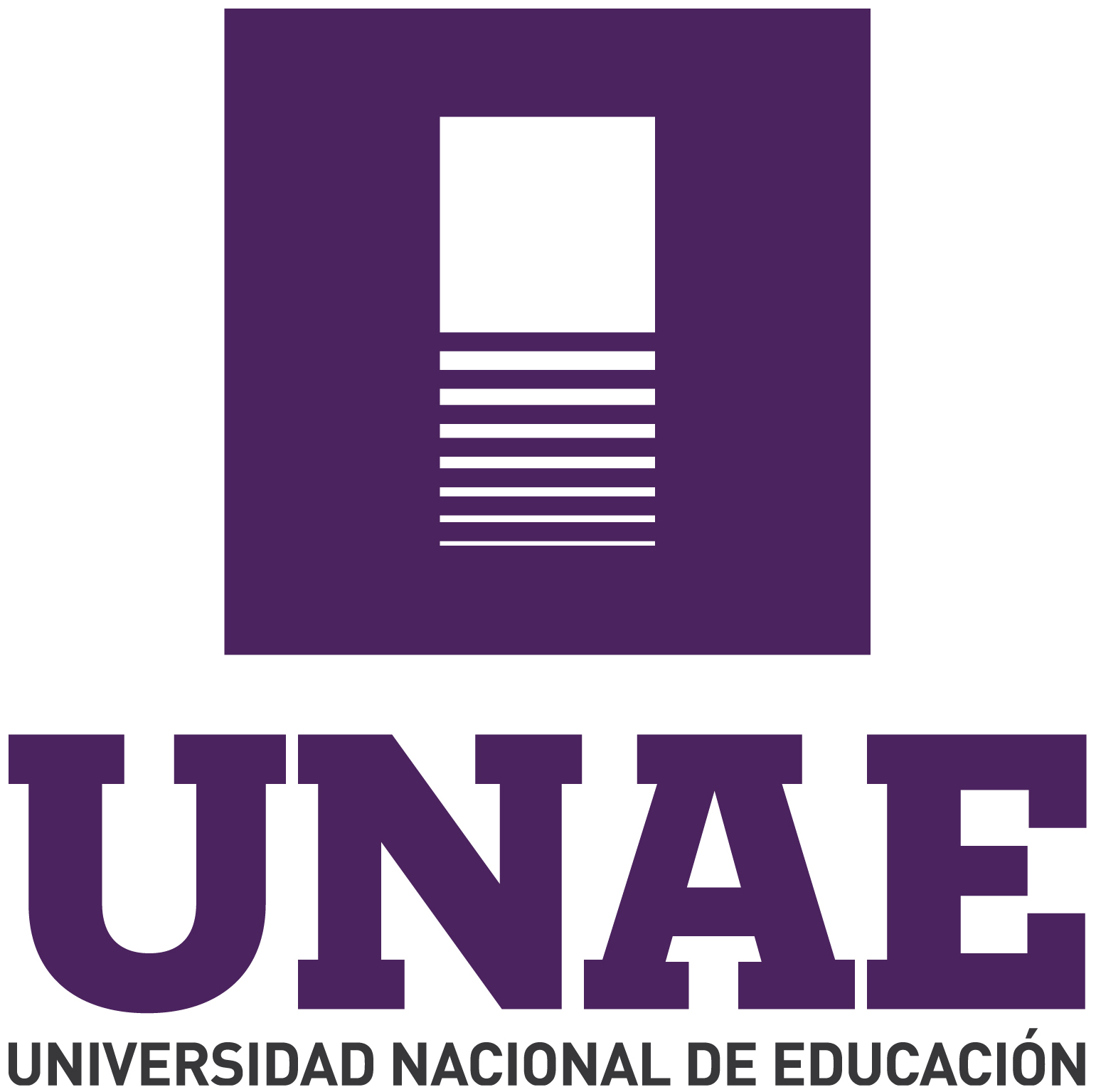 Logo, UNAE 2017